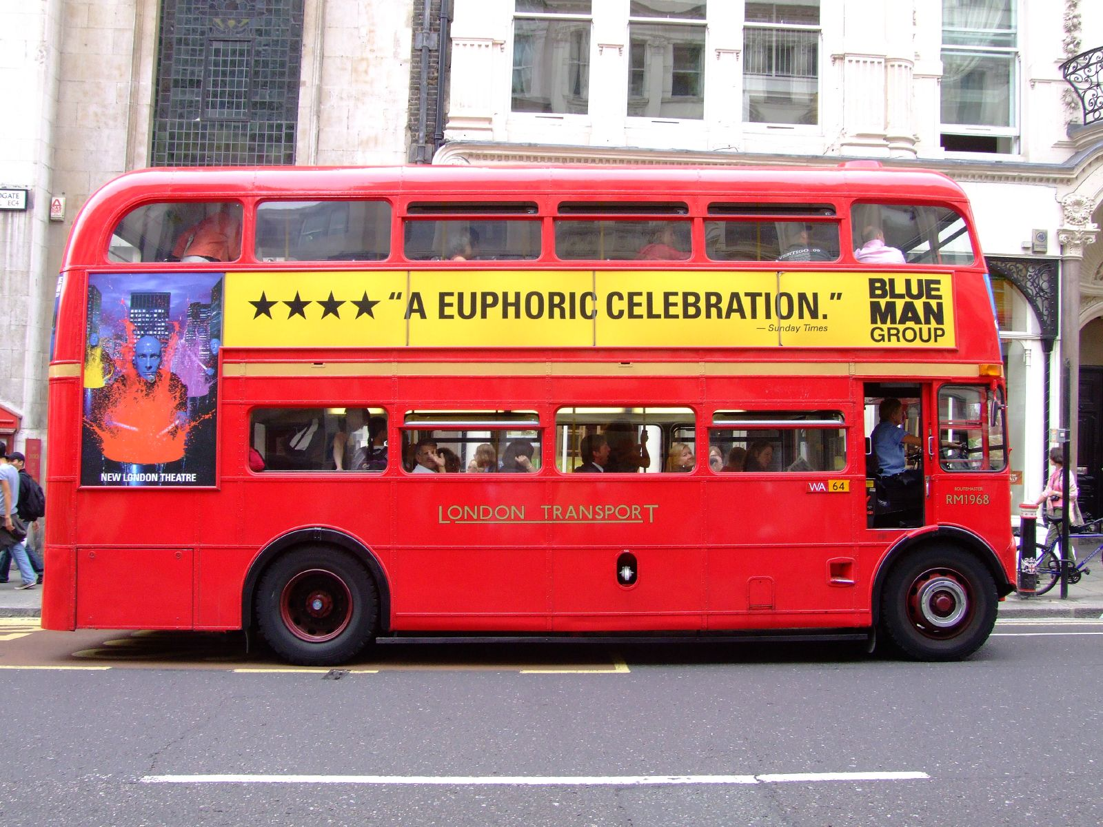 Routemaster bus RM1968 in profile.